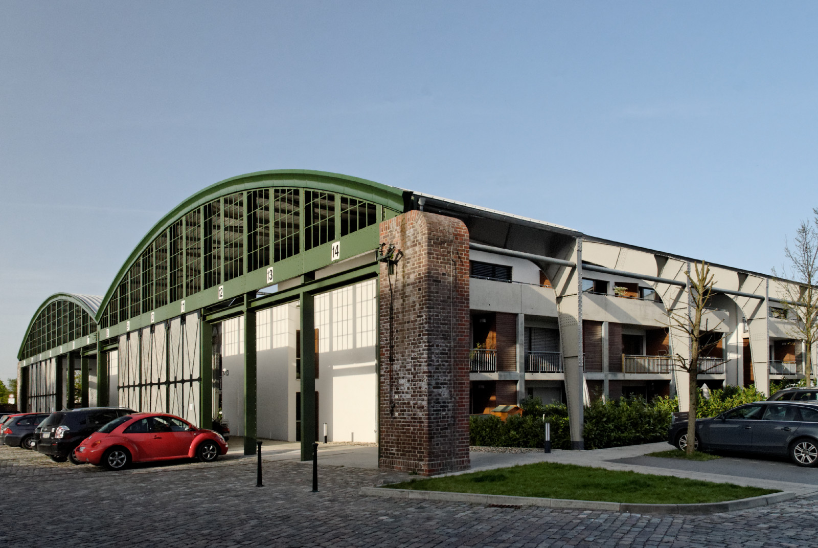 Ehemaliges Rheinbahndepot, Prof.-Schwippert-Straße in Düsseldorf-Oberbilk, Germany